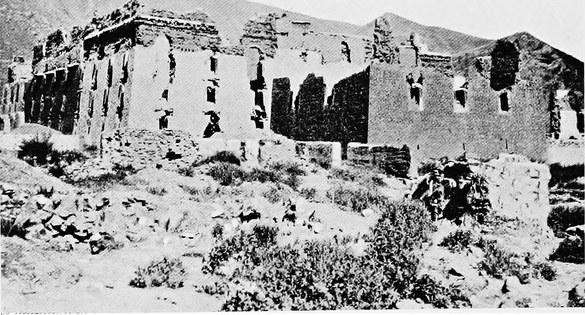 Identifier: cu31924089999209 Title: Travels of a consular officer in eastern Tibet : together with a history of the relations between China, Tibet and India Year: 1922 (1920s) Authors: Teichman, Eric, Sir, 1884-1944 Subjects: Publisher: Cambridge, England : University Press Text Appearing Before Image: FORDING THE ME CHU BELOW THE GE LA, DRAYA-YEMDO ROAD PLATE XLVIII Text Appearing After Image: A PORTION OF THE RUINS OF THE GREAT CHAMDO MONASTERYDESTROYED BY CHINESE TROOPS IN I912